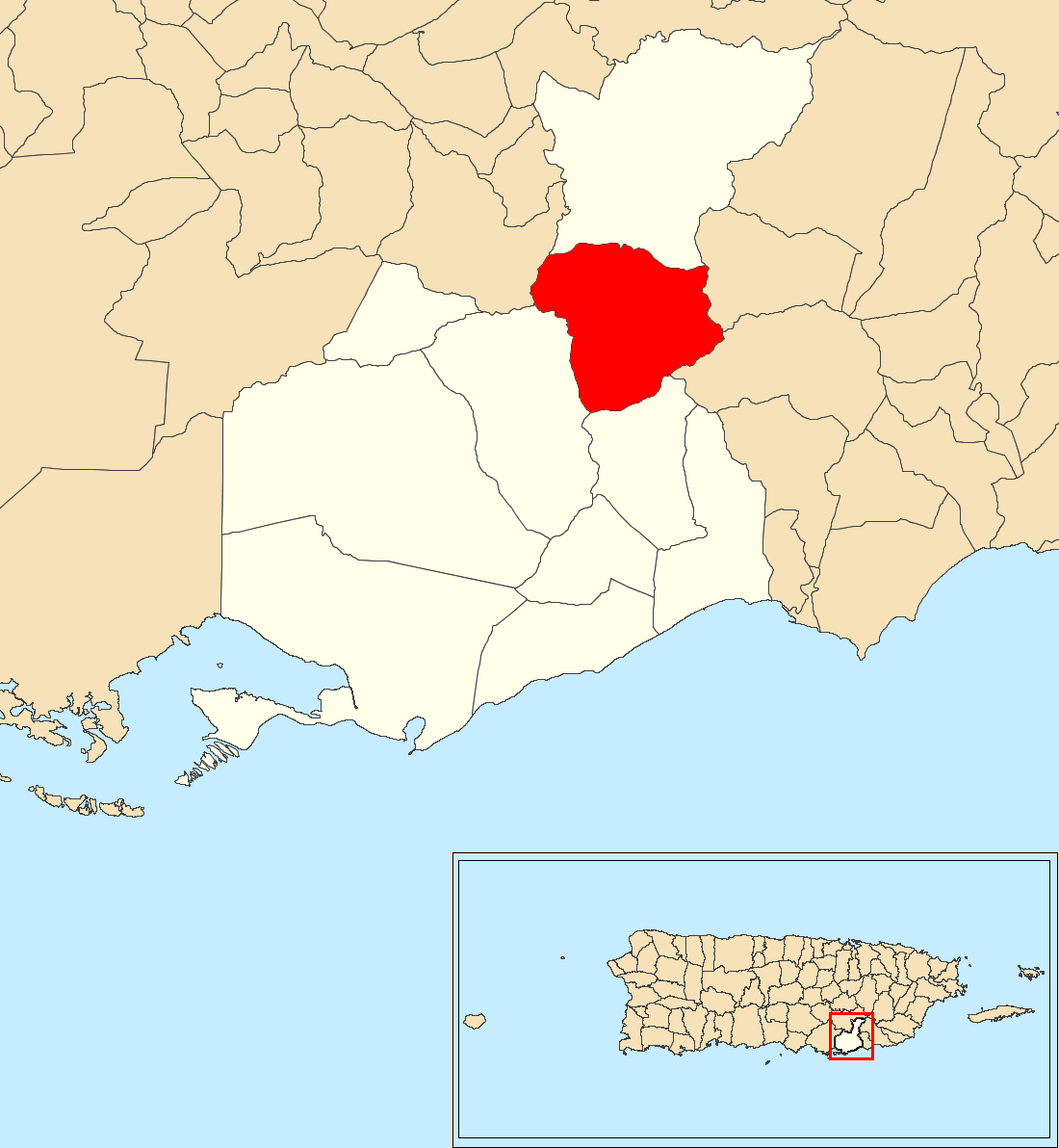 Guamaní, Guayama, Puerto Rico locator map